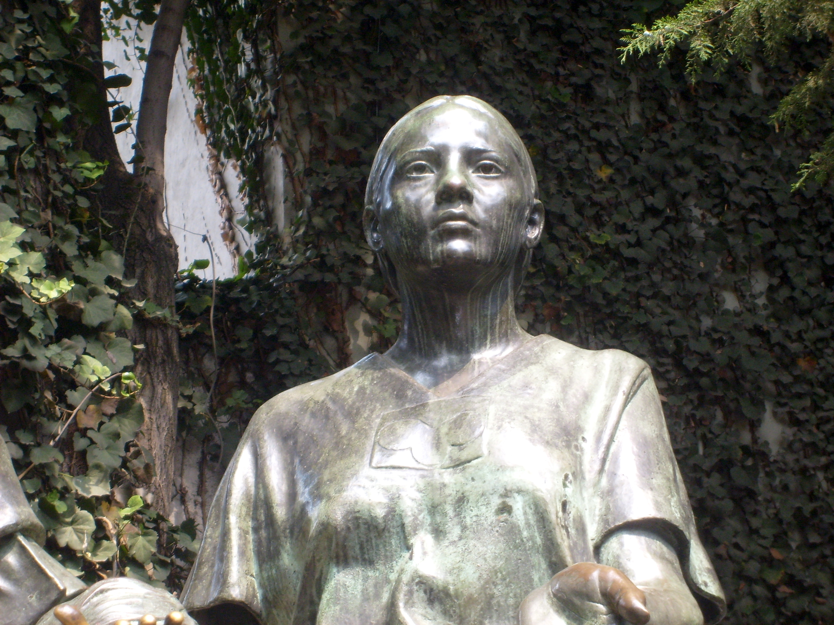 La Malinche, detail from the "Monumento al Mestizaje" by Julián Martínez y M. Maldonado (1982). The monument also includes Hernan Cortes, La Malinche (Malintzin, or Malinalli, or Doña Marina) and their son, Martín Cortes. Originally it was put in the Center of Coyoacan, in Mexico City, near the place where was Cortes country house, but it was moved to a little known park due to public protests. Currently in the Jardín Xicoténcatl, Barrio de San Diego Churubusco, Mexico city. Photopraph by Javier Delgado Rosas Nanahuatzin (talk) Nanahuatzin (talk) 08:41, 10 November 2009 (UTC)